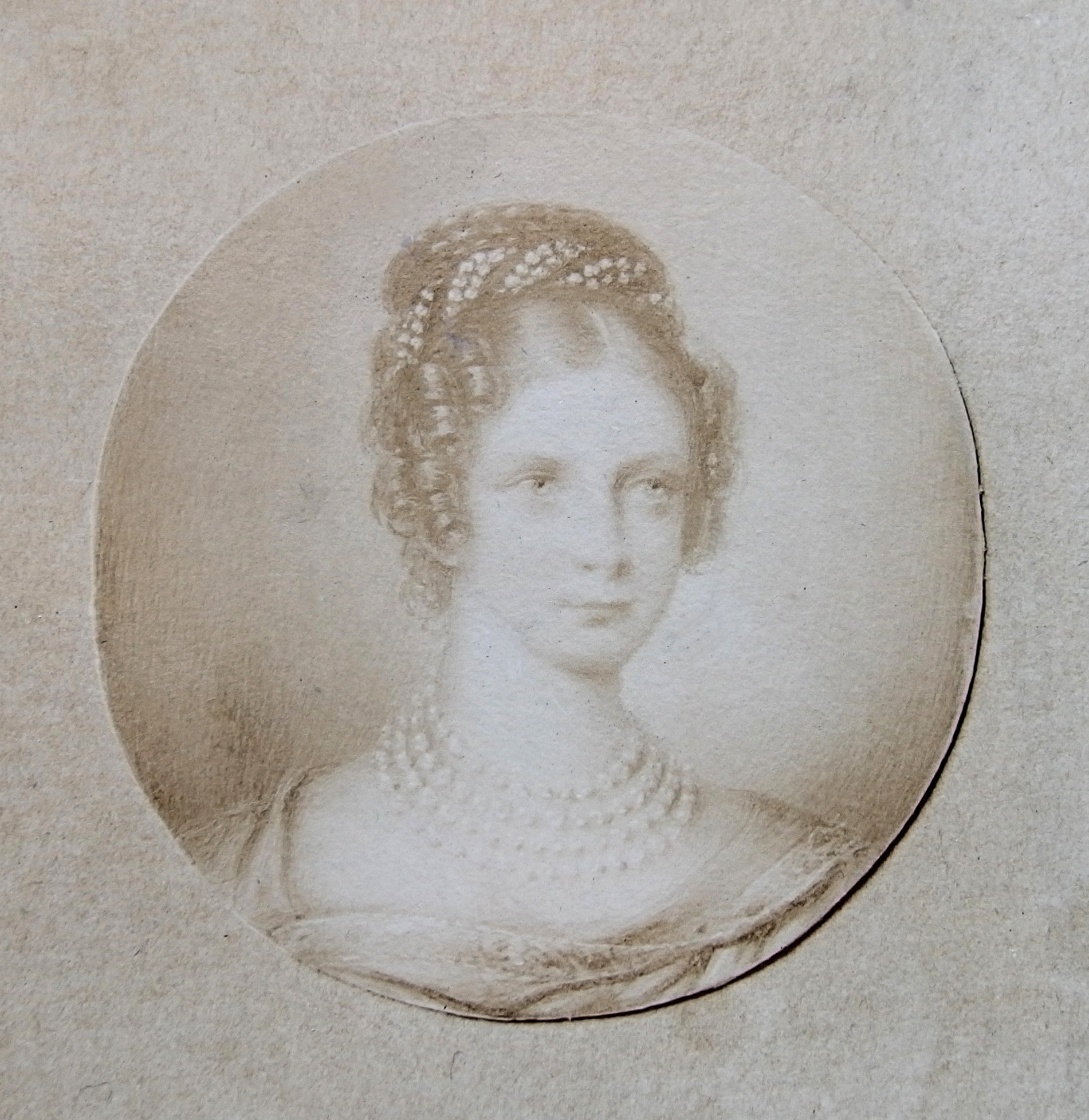 Charlotte von Preußen (1798–1860), Kaiserin Charlotte von Russland, Gemahlin Nikolaus I, Kassette, photography of miniature painting by August Grahl (Lost Art)